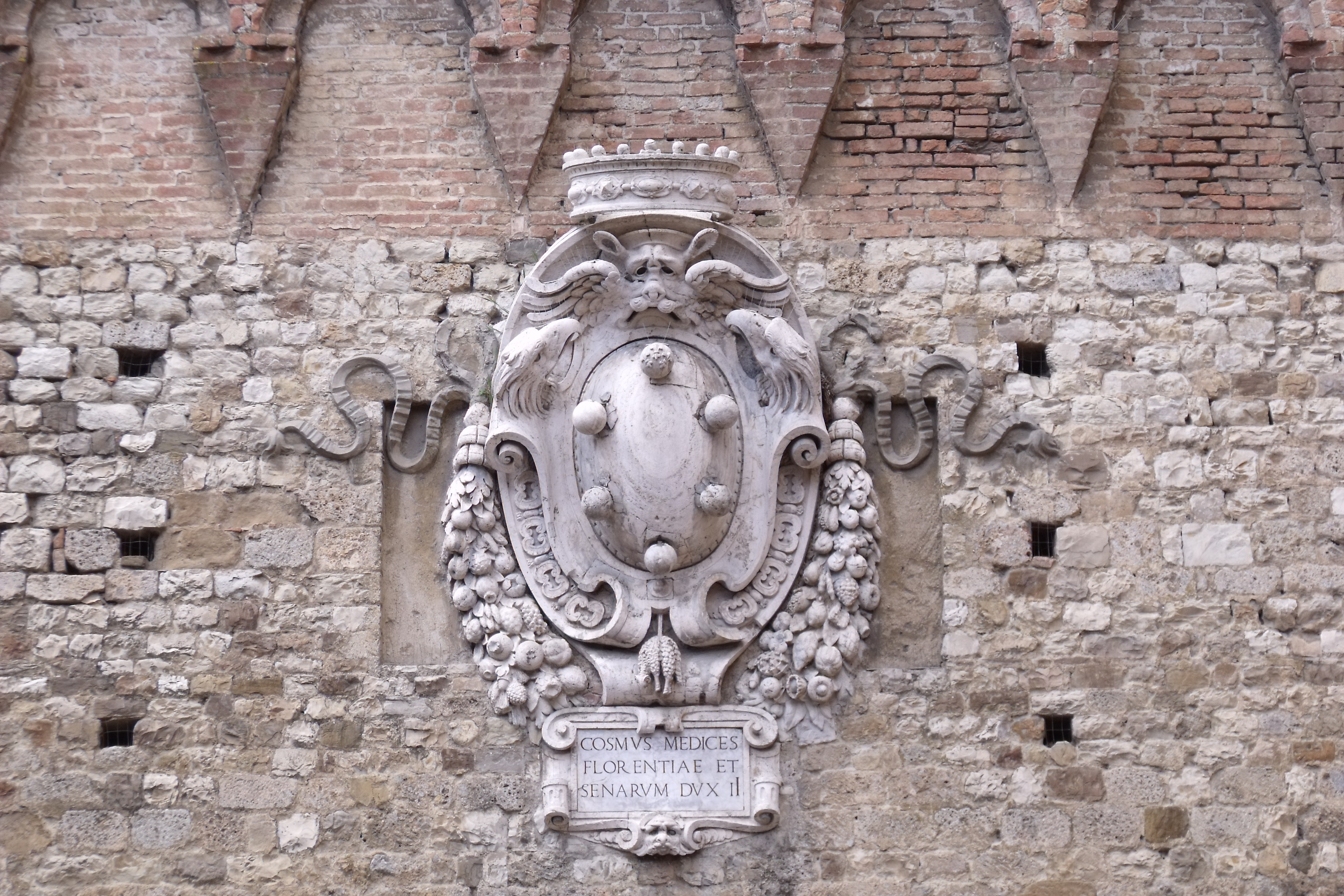 Coat of Arms of the Medici on the City Gate Porta Romana in Siena